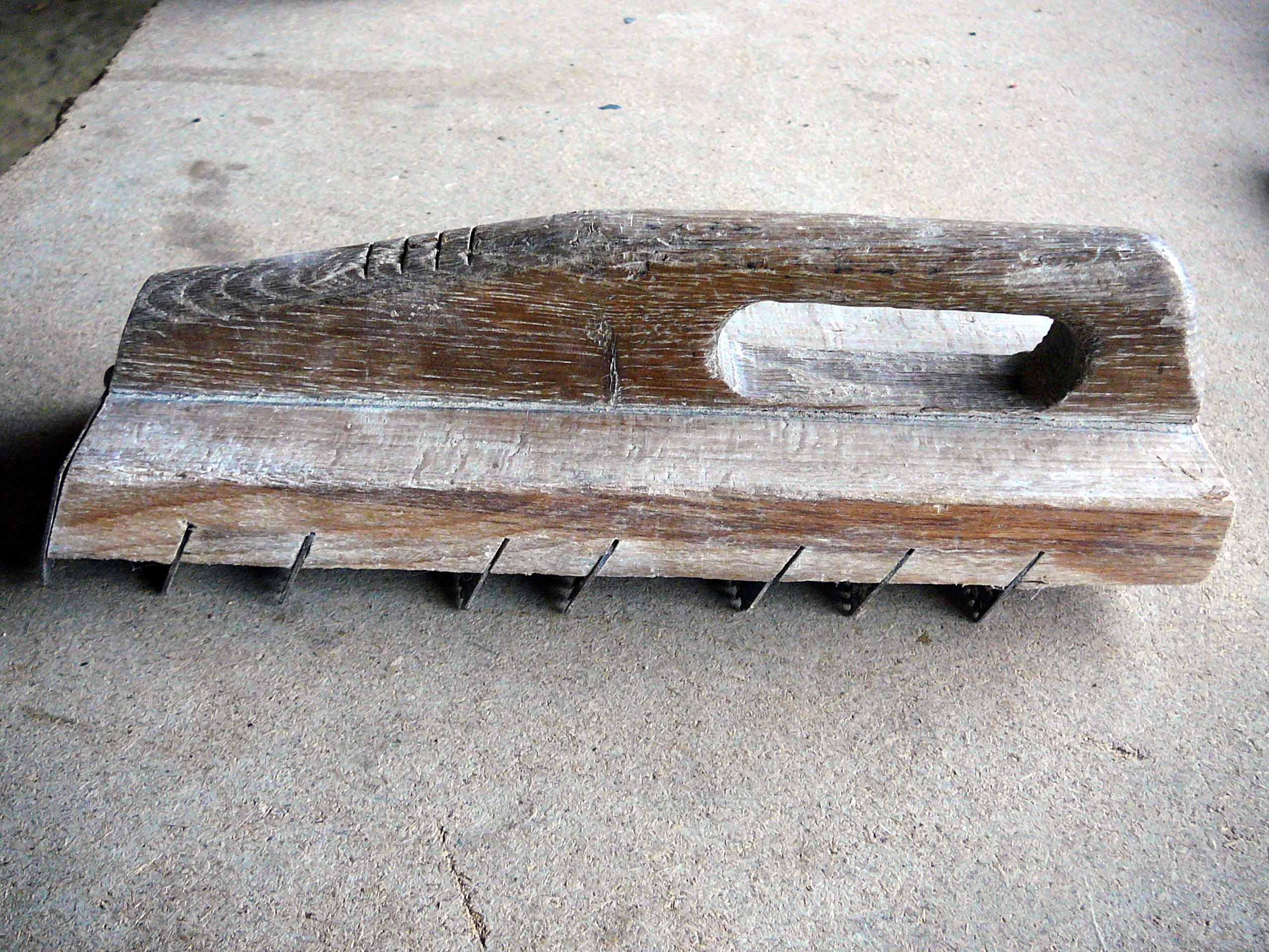 A tool used for shaving soft limestones